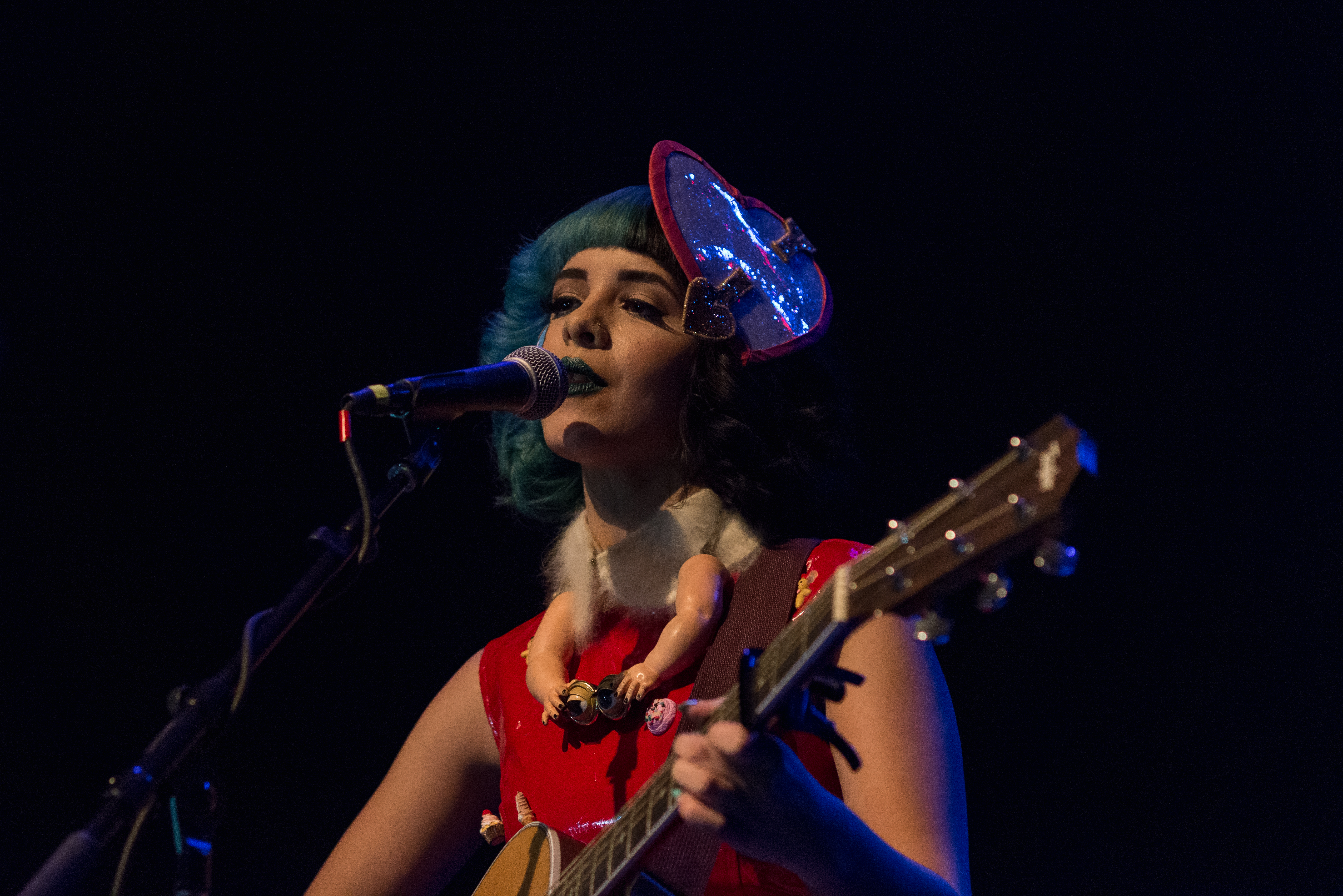 Melanie Martinez at Gramercy Theater, 2/15/2014